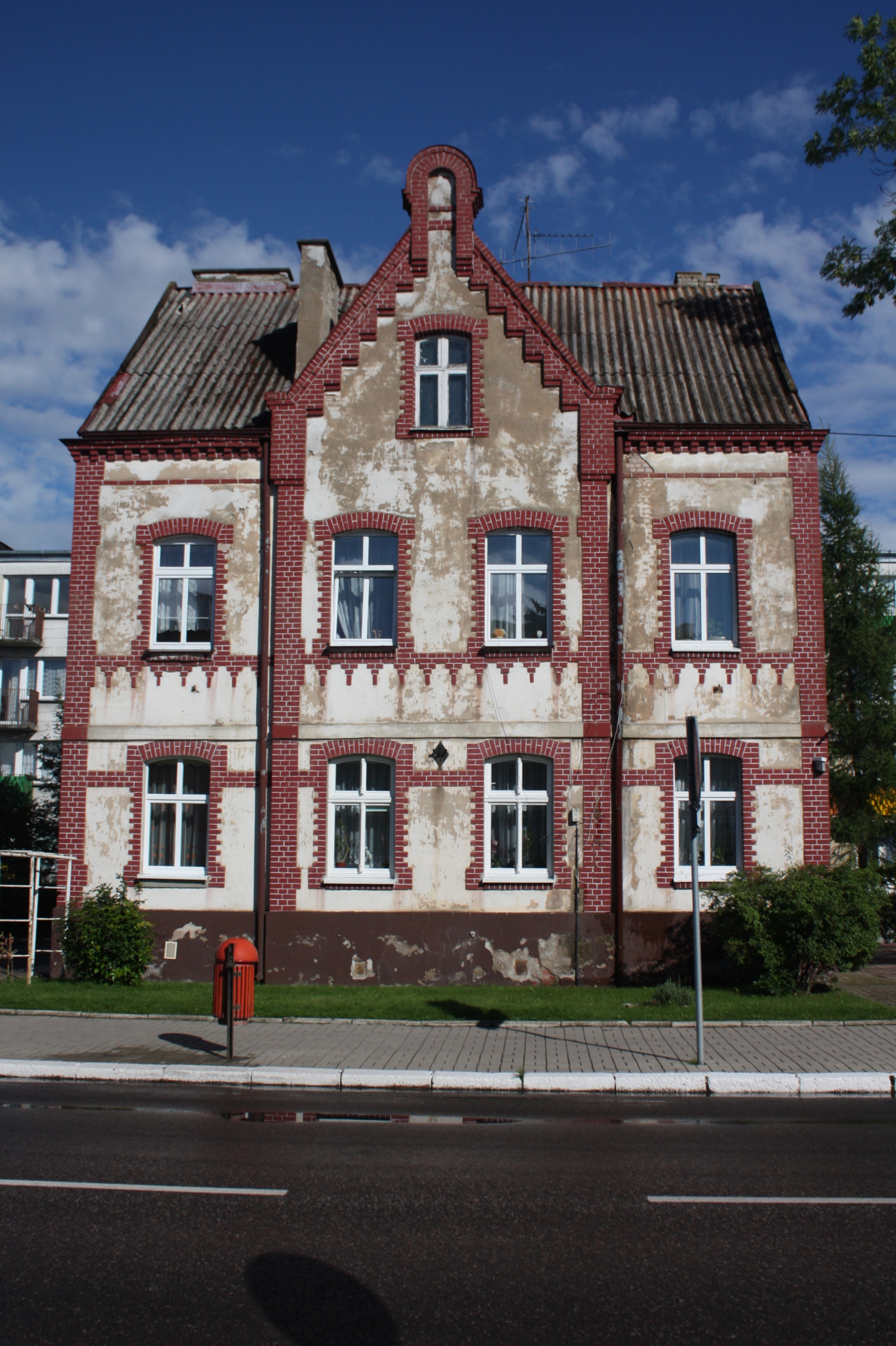 This photo of Warmian-Masurian Voivodeship was taken during Wikiexpedition 2012 set up by Wikimedia Polska Association. You can see all photographs in category Wikiekspedycja 2012. The making of this document was supported by Wikimedia Polska.